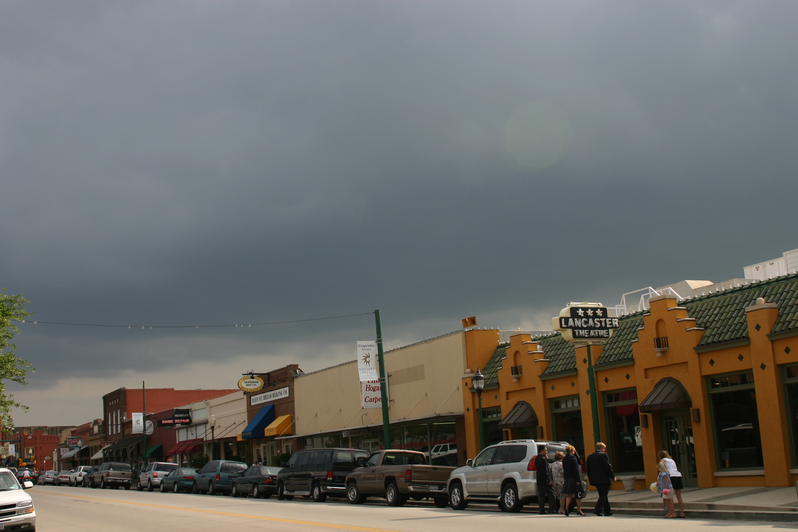 Main Street Grapevine, Texas, USA